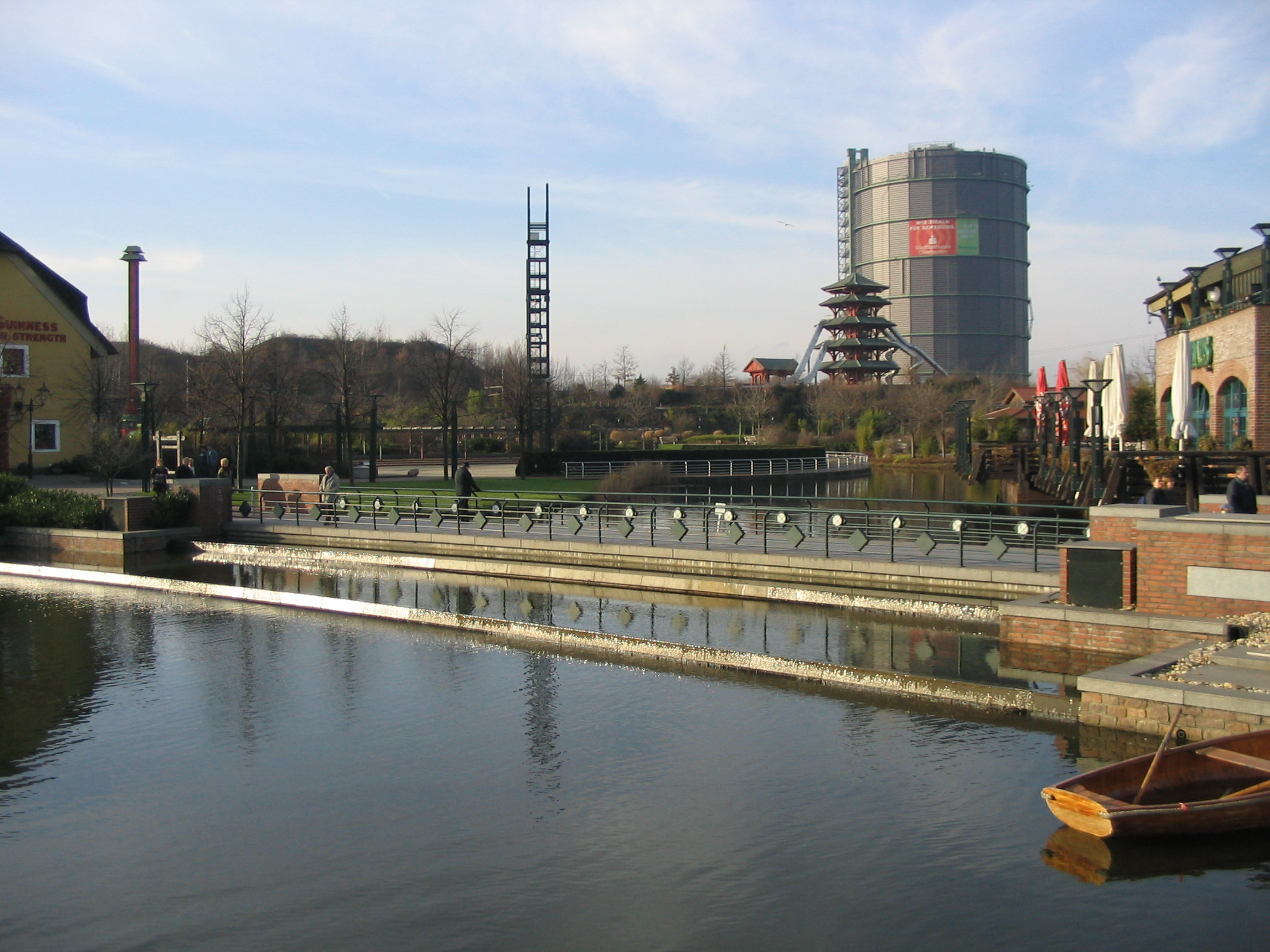 View from CentrO promenade to the gasometer